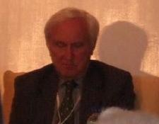 Crispin Tickell in 2005 in Malaysia.